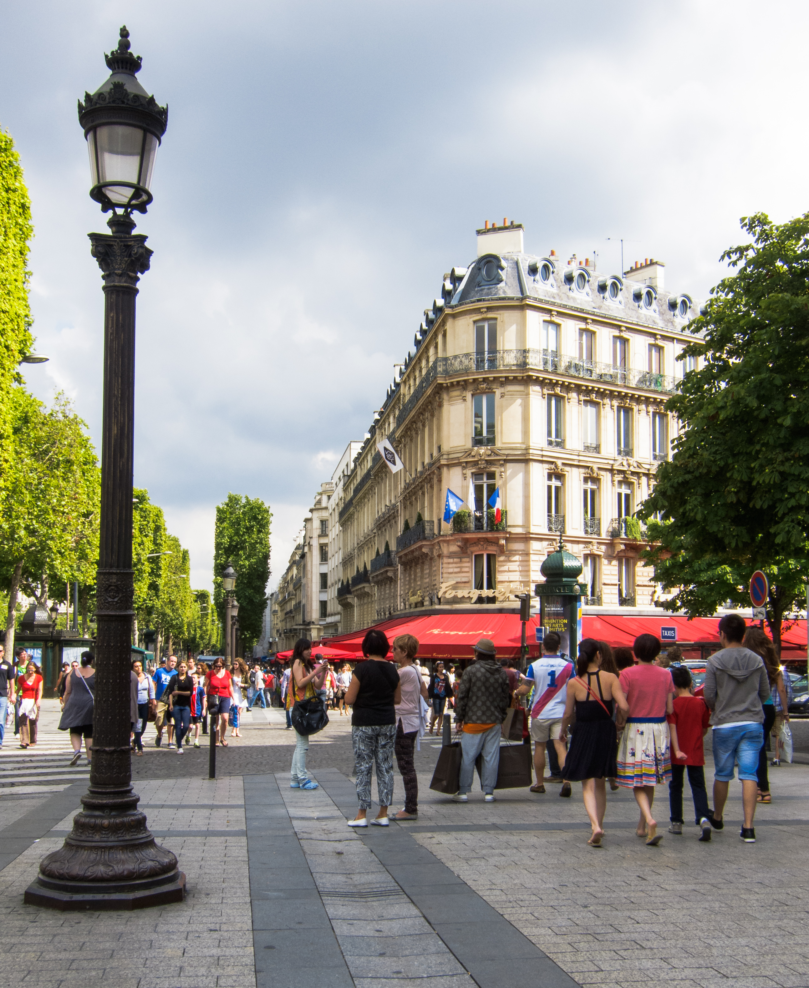 Street light Champs-Élysées, Paris.